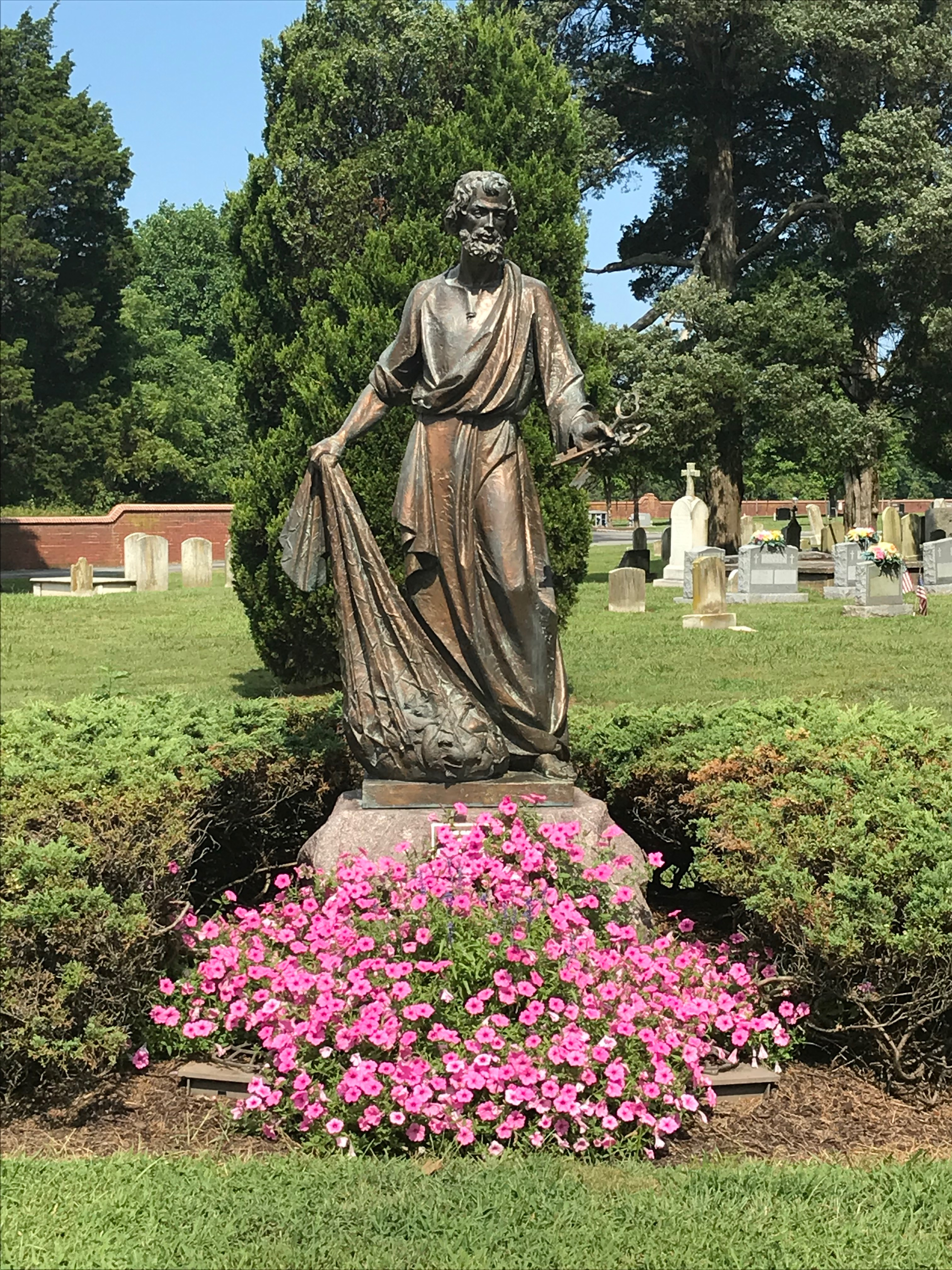 Statue of Saint Peter at St. Peter's Church near Queenstown, Maryland. Located between parking lot and cemetery.